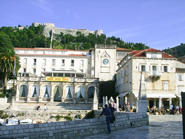 Town of Hvar on the island of the same name, Croatia